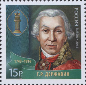 Выдающиеся юристы России 1